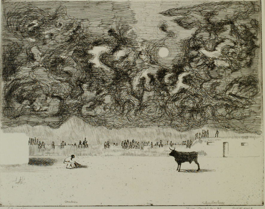 Etching